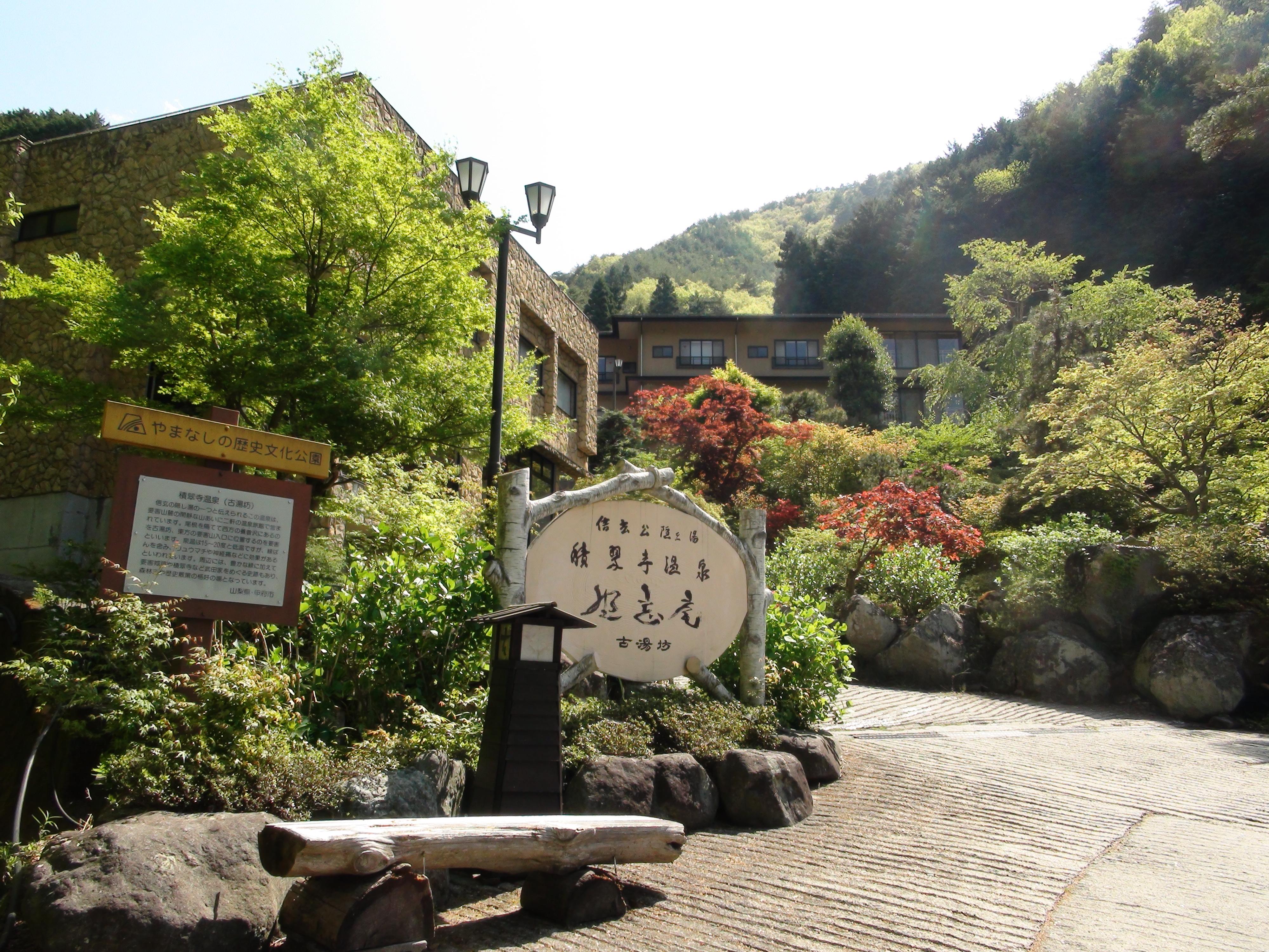 Sekisuiji hot springs of Koyubo